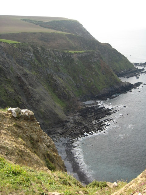 Yeol Mouth Yeol Mouth and Yeol Cliff viewed from the coast path.